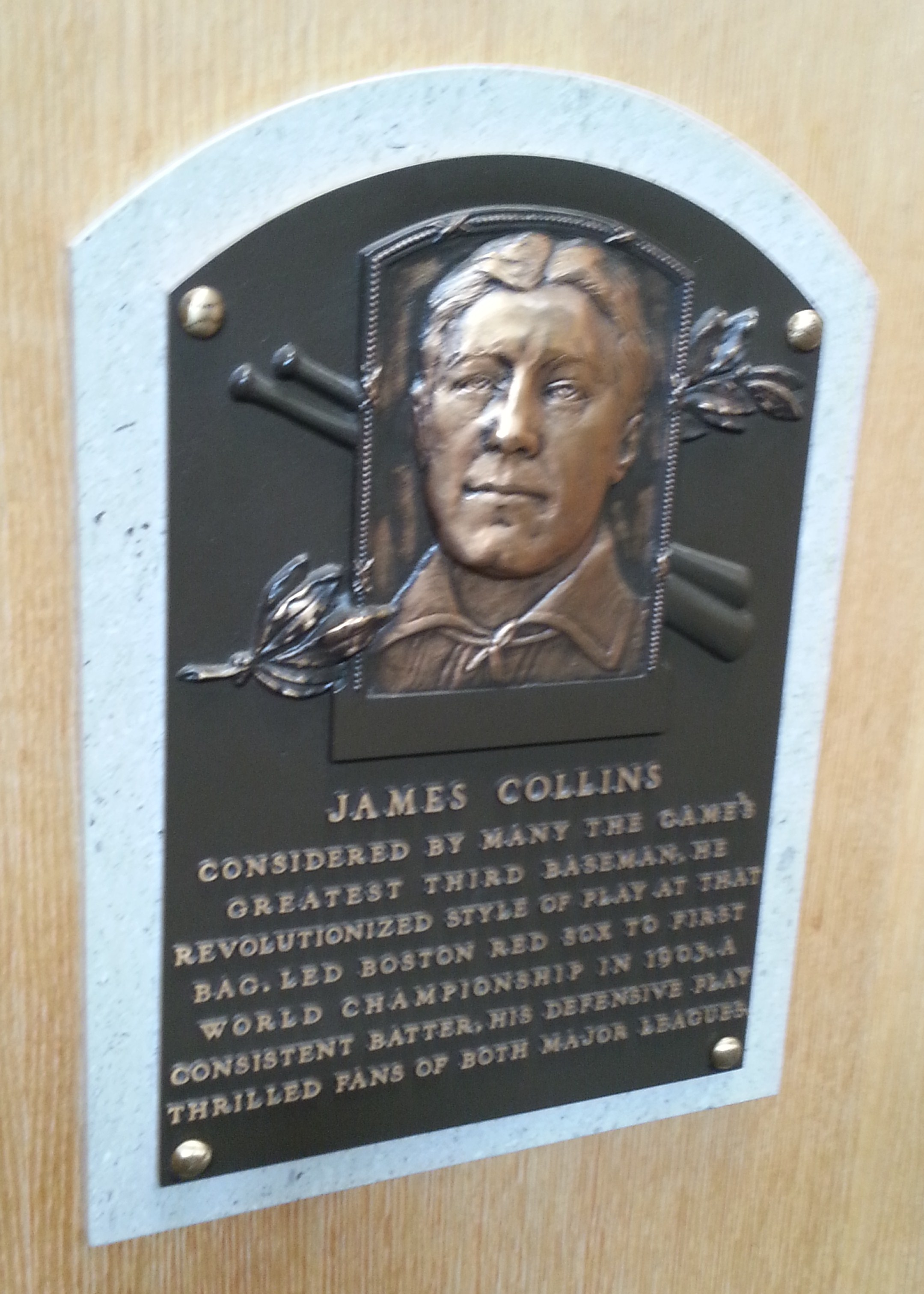 Jimmy Collins plaque in the National Baseball Hall of Fame